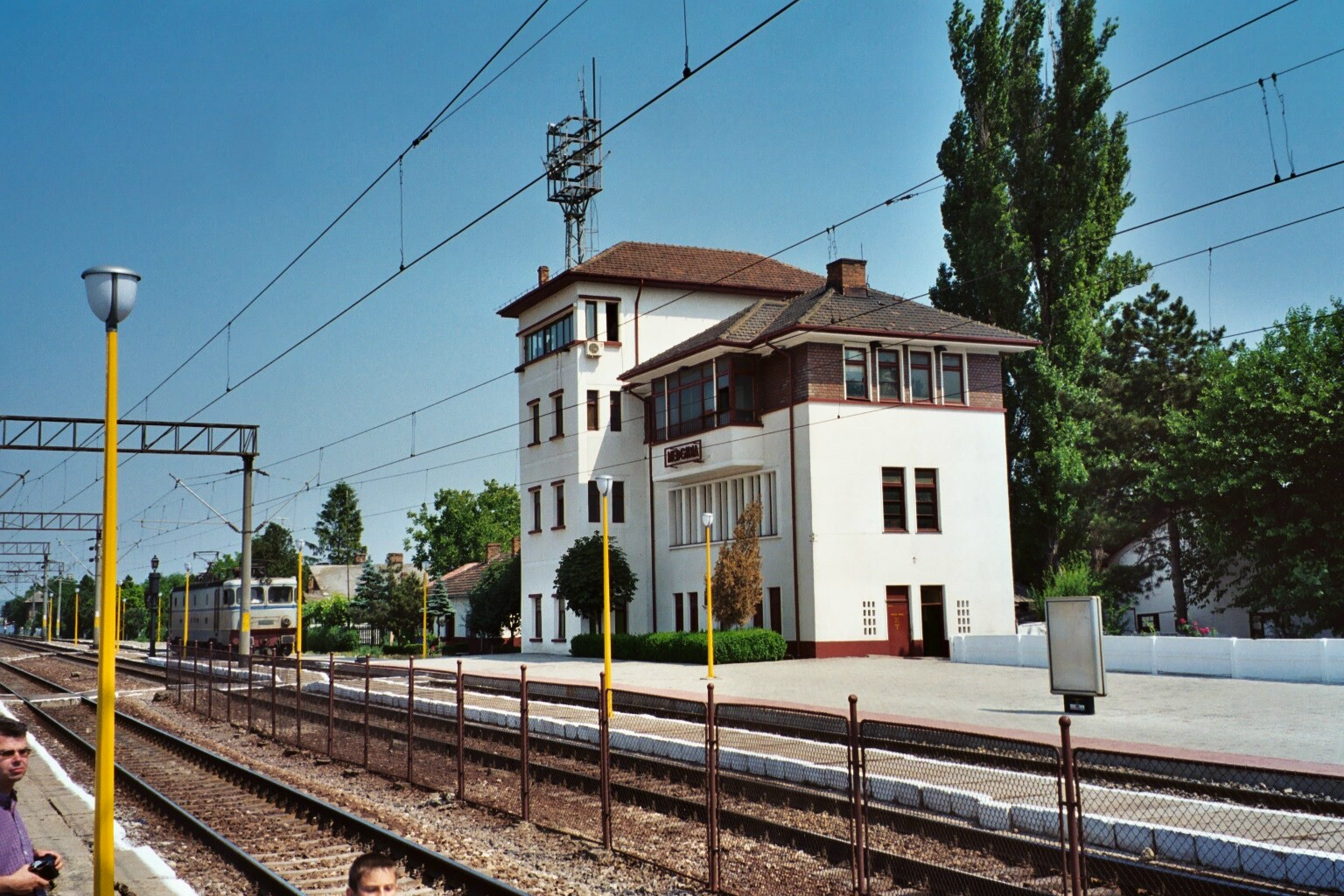 Railway station Medgidia in Romania. Located 40 km west of Constanta